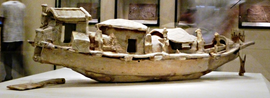 I took this photo at the National Museum in Beijing. From the Eastern Han dynasty 25-220 CE. Guangzhou. Said to be the earliest known representation of a rudder. This craft could be used both on rivers and at sea. Note the roofed compartments with doors and windows and sailors